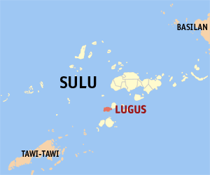 Map of the Sulu showing the location of Lugus